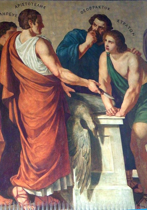 Detail of the right-hand facade fresco, showing Aristotle, Theophrastus, and Strato of Lampsacus. National and Kapodistrian University of Athens.